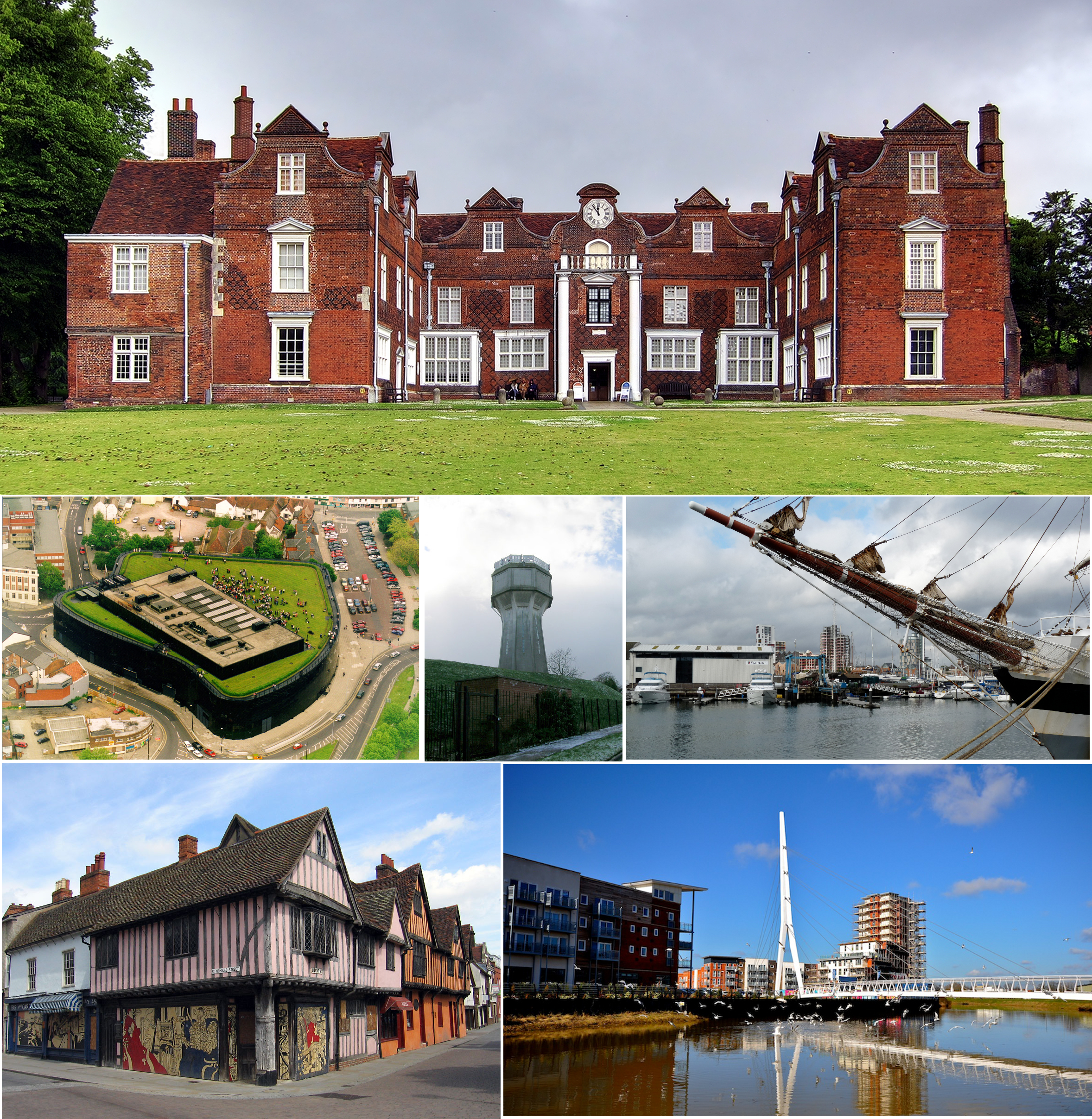 Category:Ipswich is where I found the parts. Feel free to choose better ones and overwrite this file. I don't think we need more than one file page and we will always have the history versions to work with.